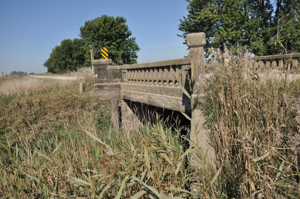 Lincoln Highway-Little Beaver Creek Bridge, Greene County, Iowa.